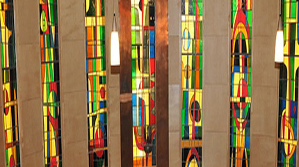 Stained glasses windows of the Reconstructionist Synagogue of Montreal (Canada)